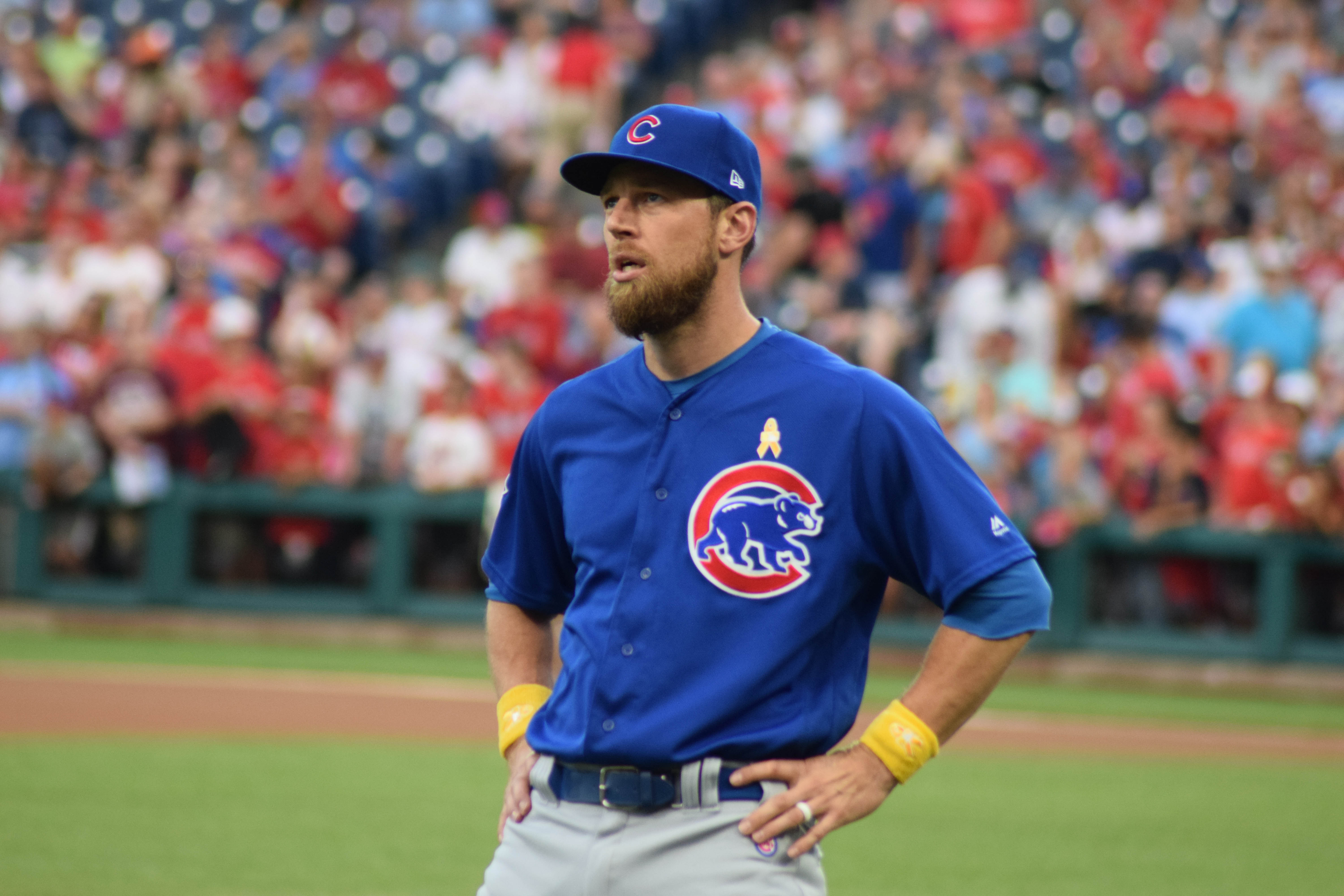 Chicago Cubs Outfielder Ben Zobrist